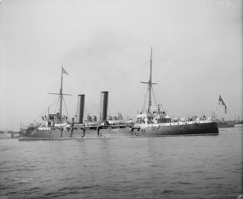 Photograph of British cruiser HMS Intrepid.